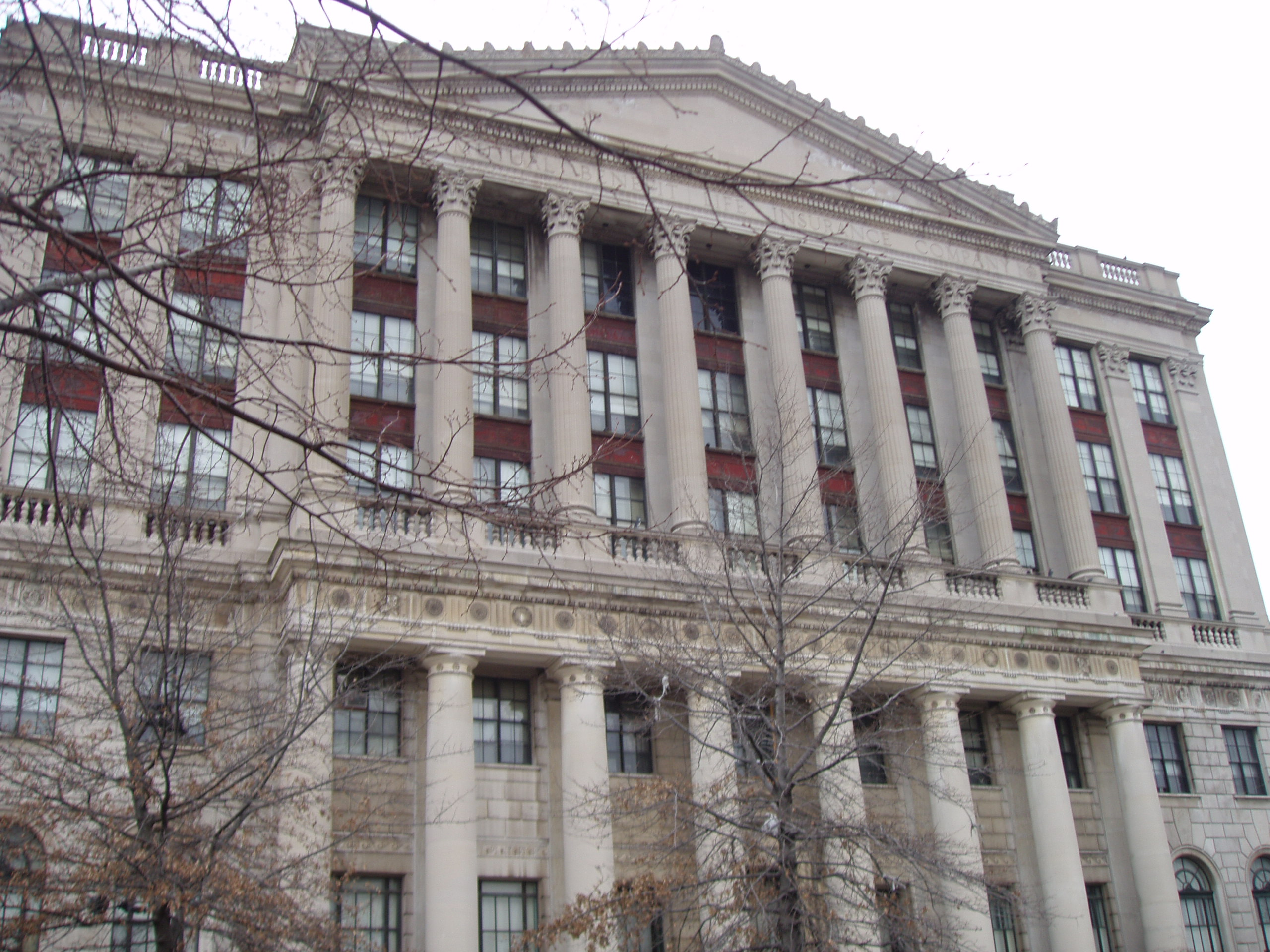 Former HQ of Mutual Benefit Co, Newark.